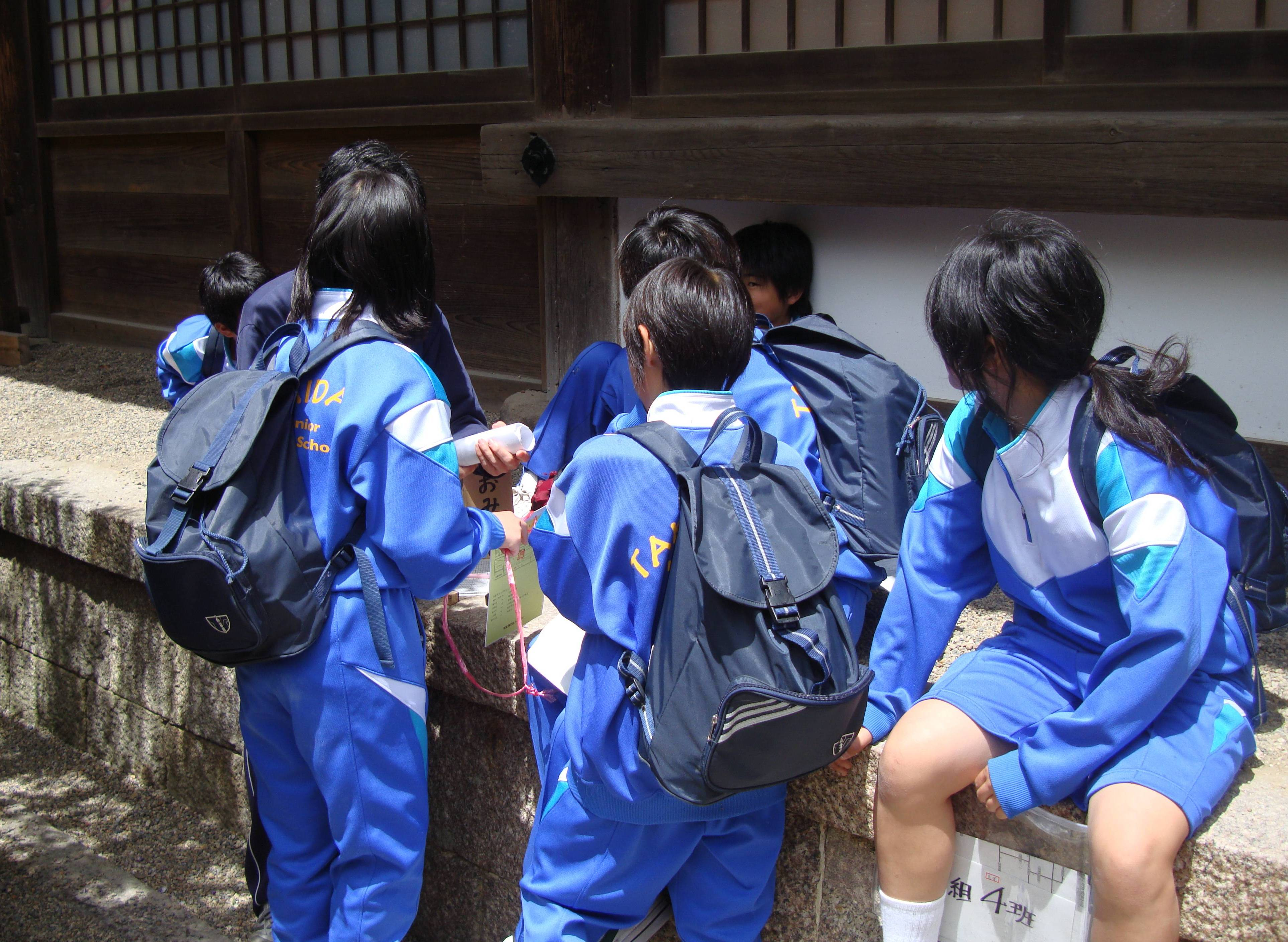 Kasuga Shrine, which remembers various Emperesses of the Fujiwara aristocratic line